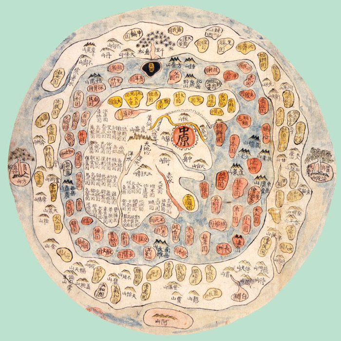 A Korean world map of a type whose religious and cosmological content goes back to mid–fourth-century China, is centered on the legendary Mount Meru in Central Asia. UPPER: BRITISH LIBRARY (MAPS.C.27.F.14); LOWER: BIBLIOTECA ESTENSE / SCALA / ART RESOURCE